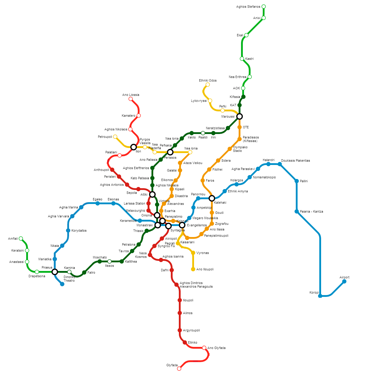 Athens metro system. Lines 1, 2, 3, 4 complete.